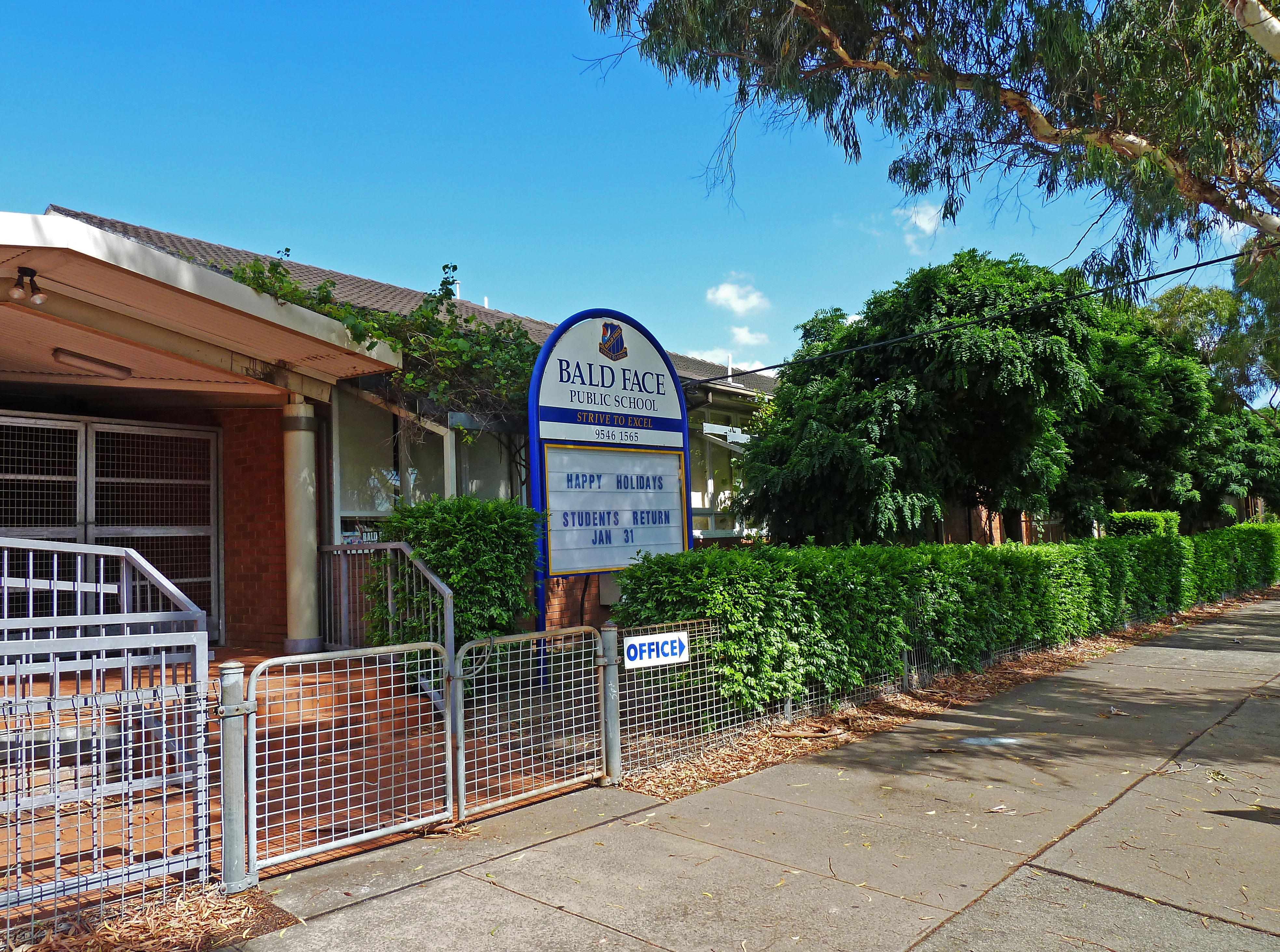 Bald Face Public School, Blakehurst, New South Wales, Australia.